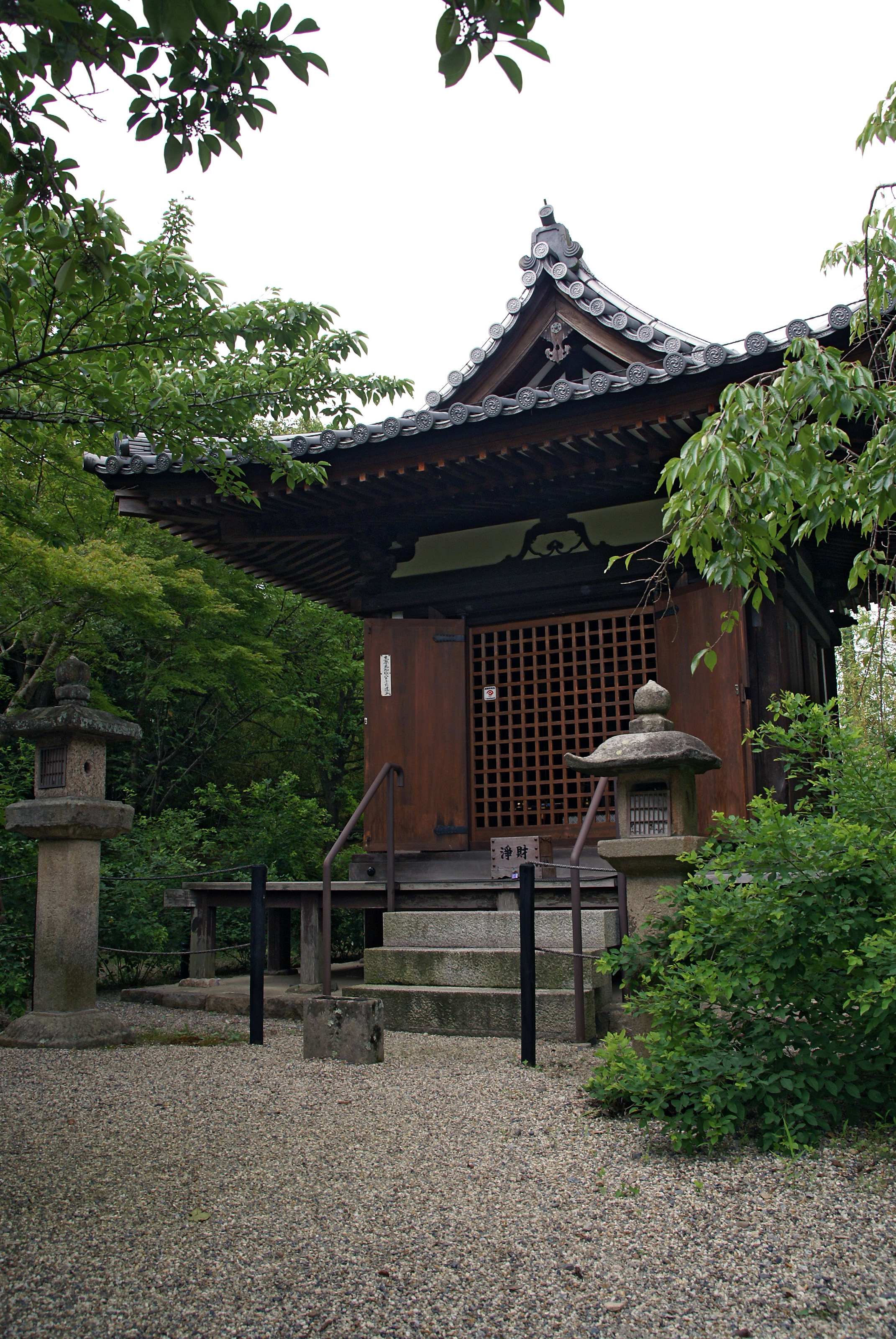 Jizō Hall at Shin-Yakushiji in Nara, Nara prefecture, Japan